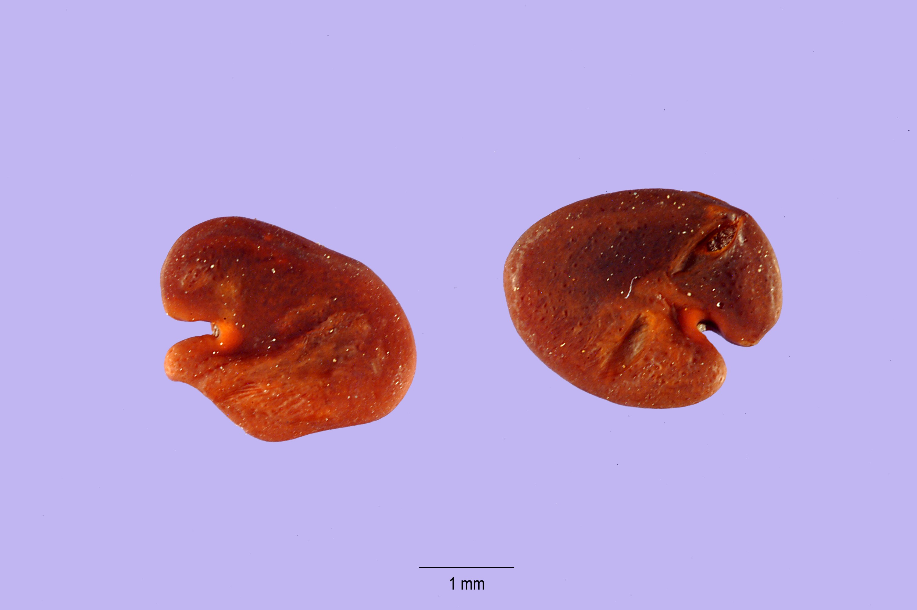 seeds of Astragalus ceramicus from Tracey Slotta. Provided by ARS Systematic Botany and Mycology Laboratory. United States, UT, LaSal Forest.